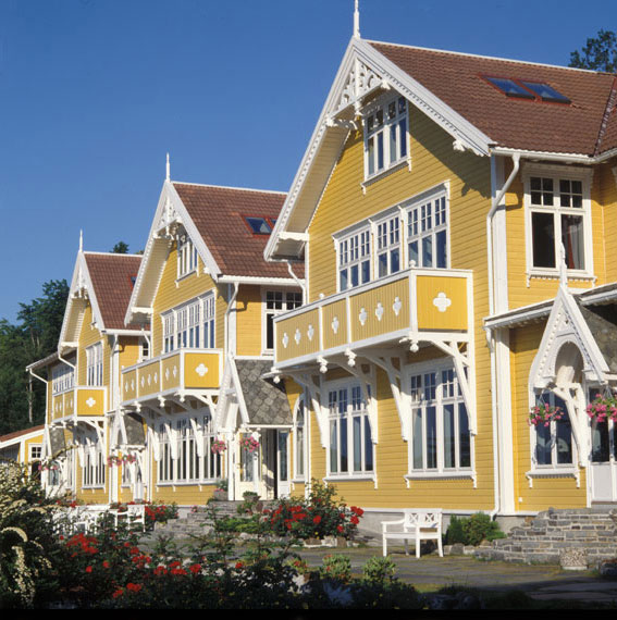 Fasade.